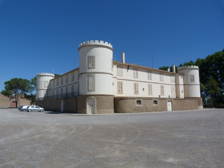 Castell del Remei, Lleida, Catalonia.